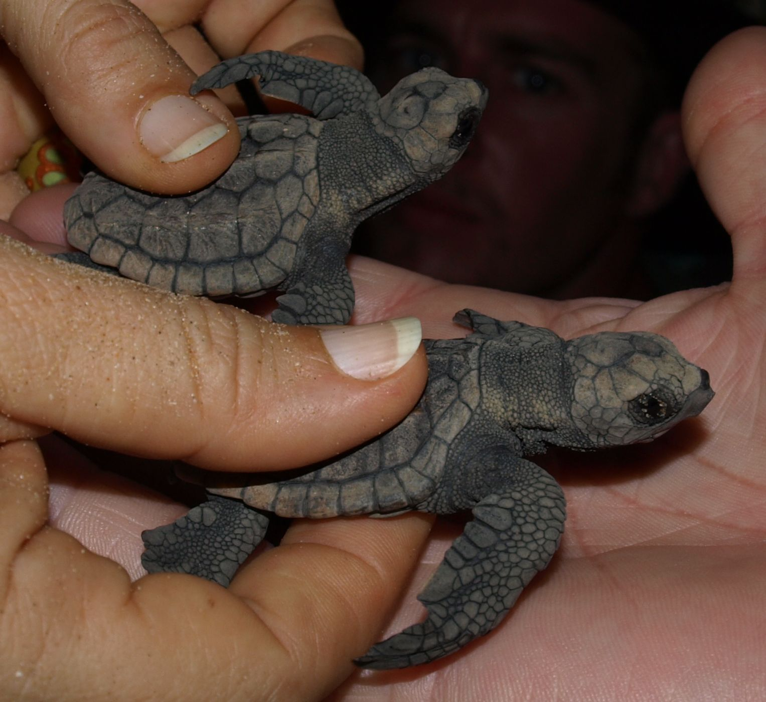 Baby Loggerhead turtles (Caretta caretta) from Mon Repos beach in Bundaburg QLD Australia